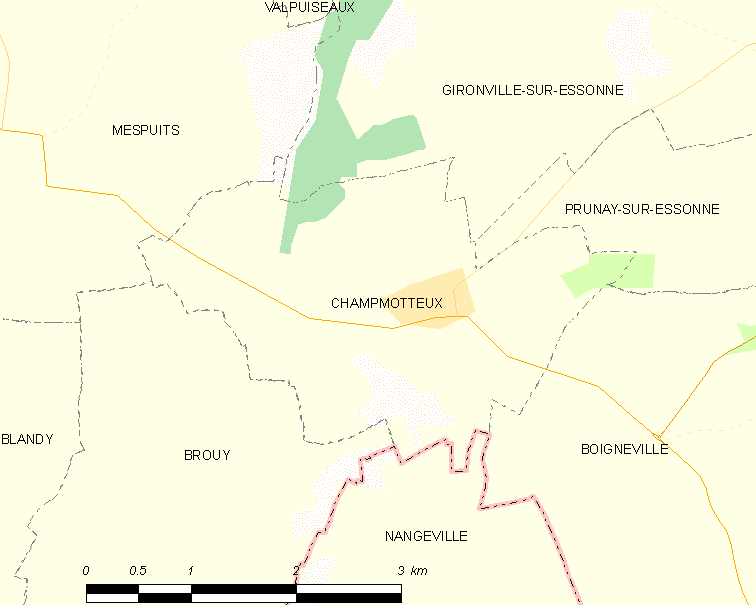 Map of French municipality Champmotteux